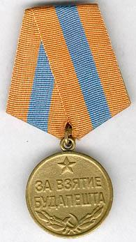 Soviet Medal For the Capture of Budapest